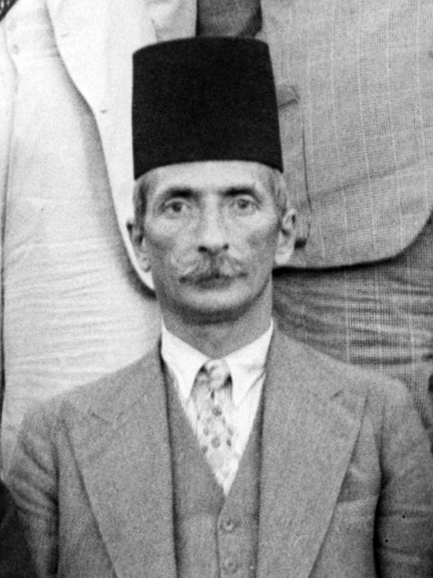 Ahmad Hilmi Pasha